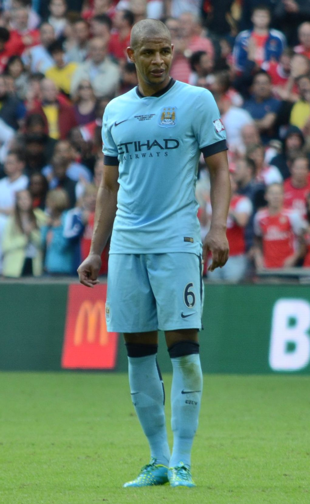 Fernando Francisco Reges playing in the 2014 FA Community Shield match between Manchester City and Arsenal.